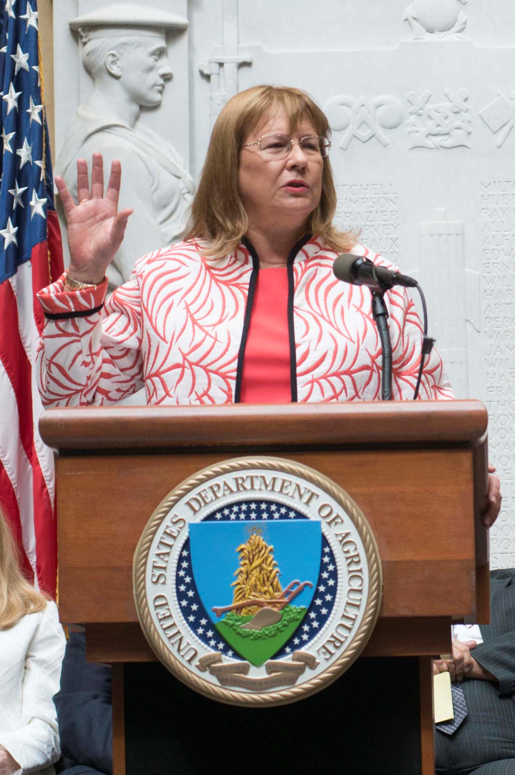 Dr. Ann Bartuska, Deputy Under Secretary, Research, Education and Economics (REE) makes closing remarks to the National Kick-off Ceremony for the 2015 Feds Feed Families (FFF) Food Drive in Washington, DC, on Wednesday, July 15 at 10 a.m. USDA photo by Tom Witham.